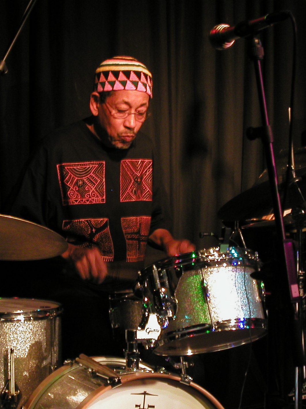 Warren Smith in concert with "A Tribute to Albert Ayler" (Joe McPhee, Roy Campbell jr., William Parker & Warren Smith) one day after the election of Barack Obama for President of the US in Club W71, Weikersheim